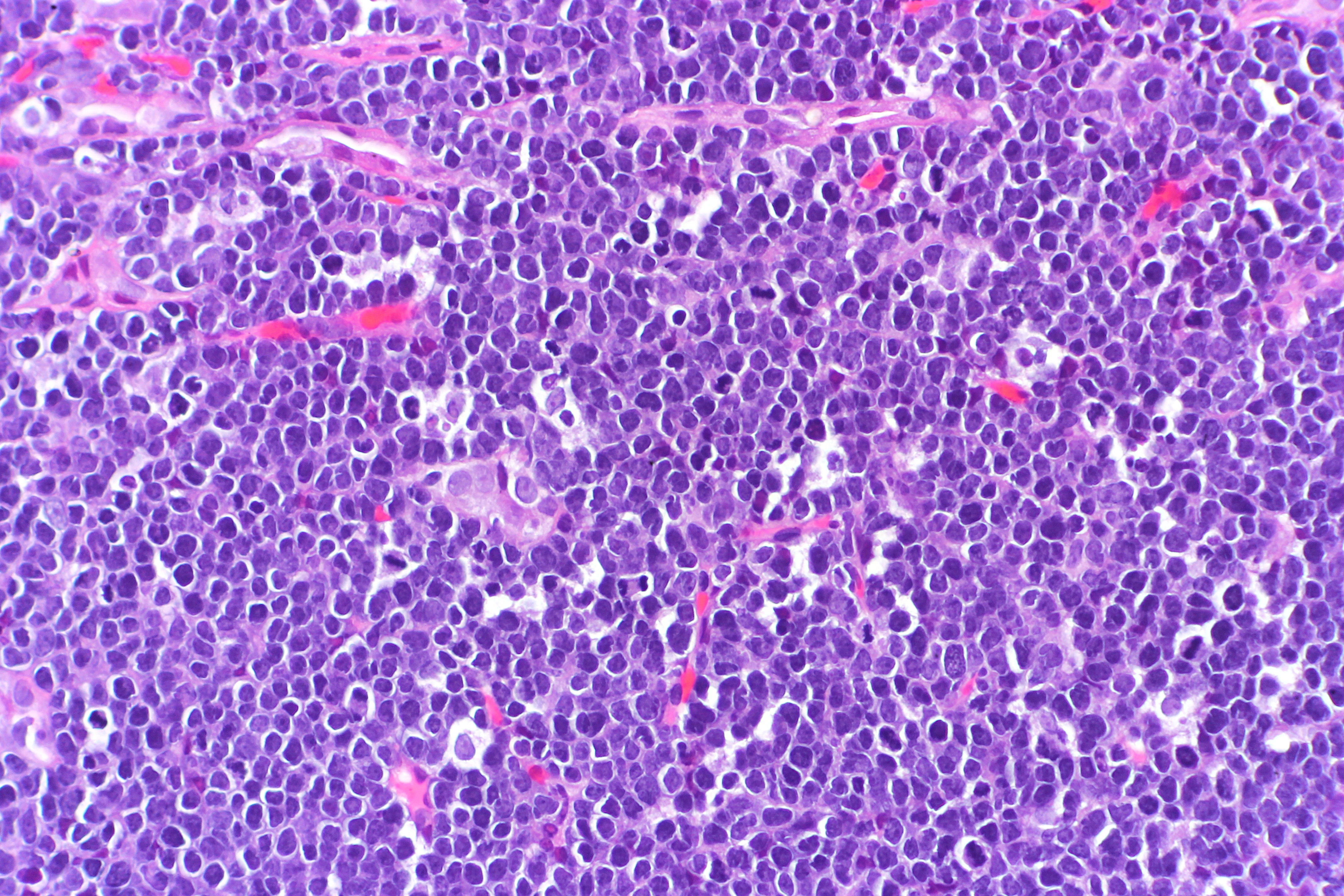 Burkitt's lymphoma in a kidney biopsy. H&E stain.